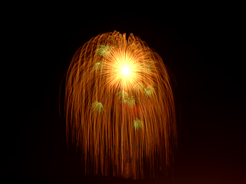 Fireworks of Katakai Festival, 4-shaku dama.